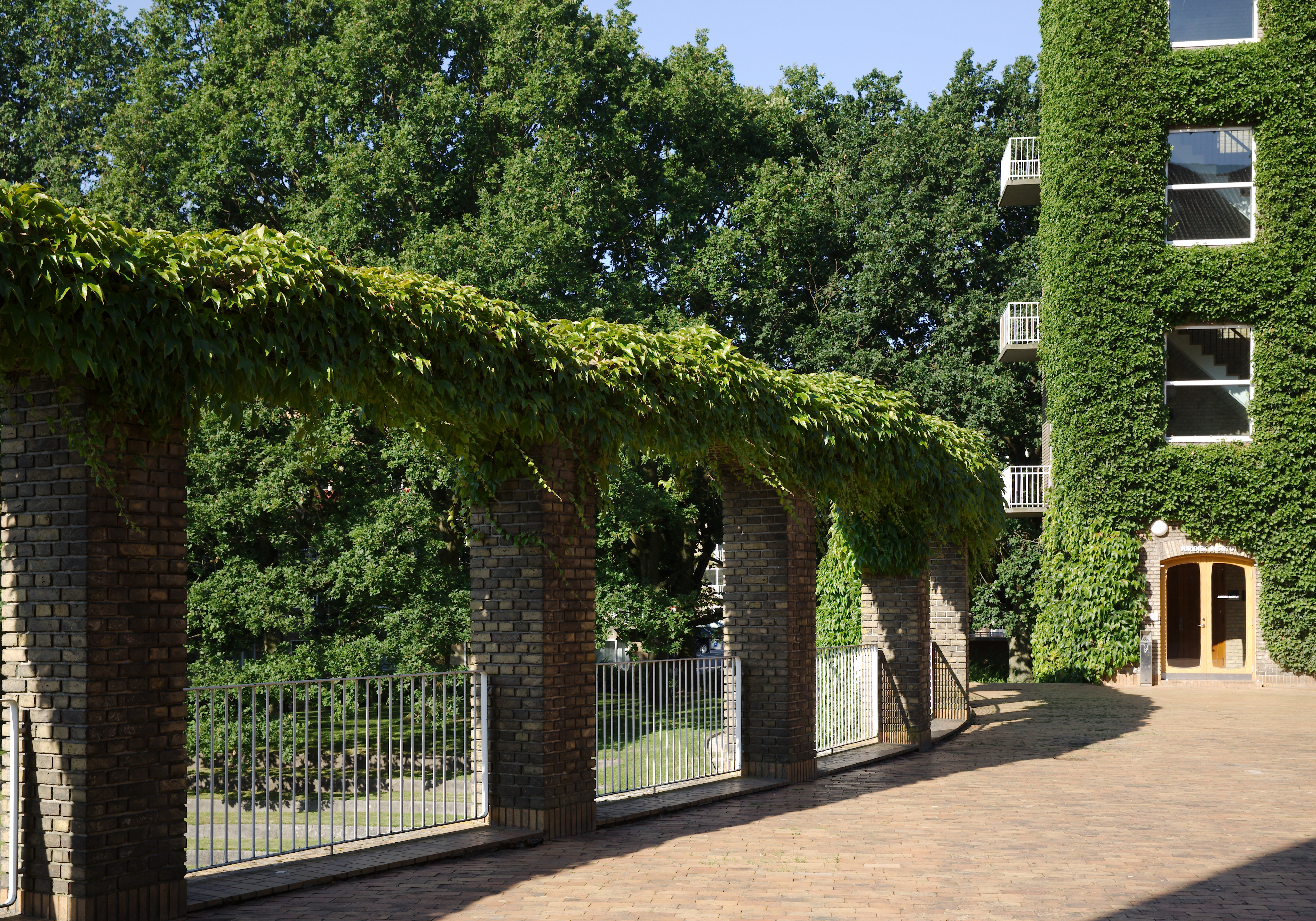 The arches at the park